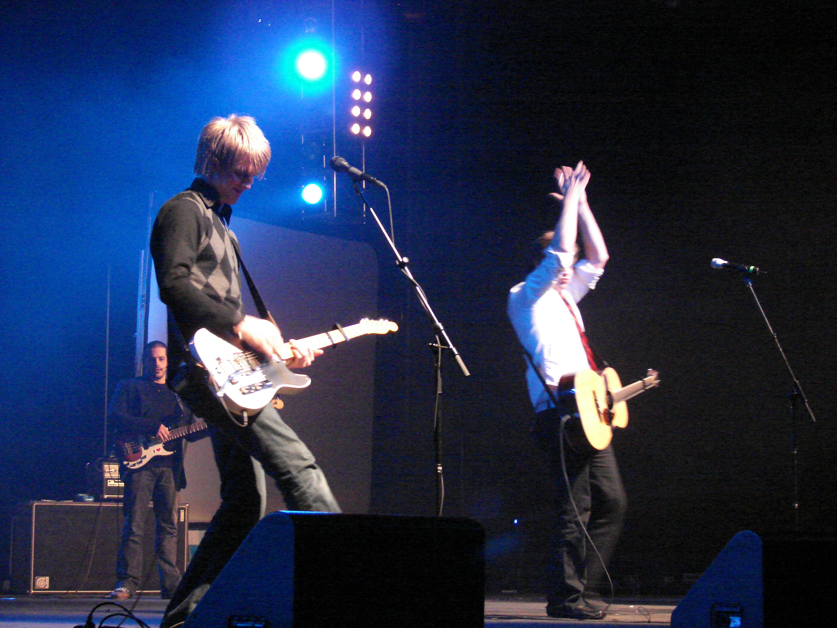 Christian band from Canada "Starfield" They also have a MySpace if you wanna listen.